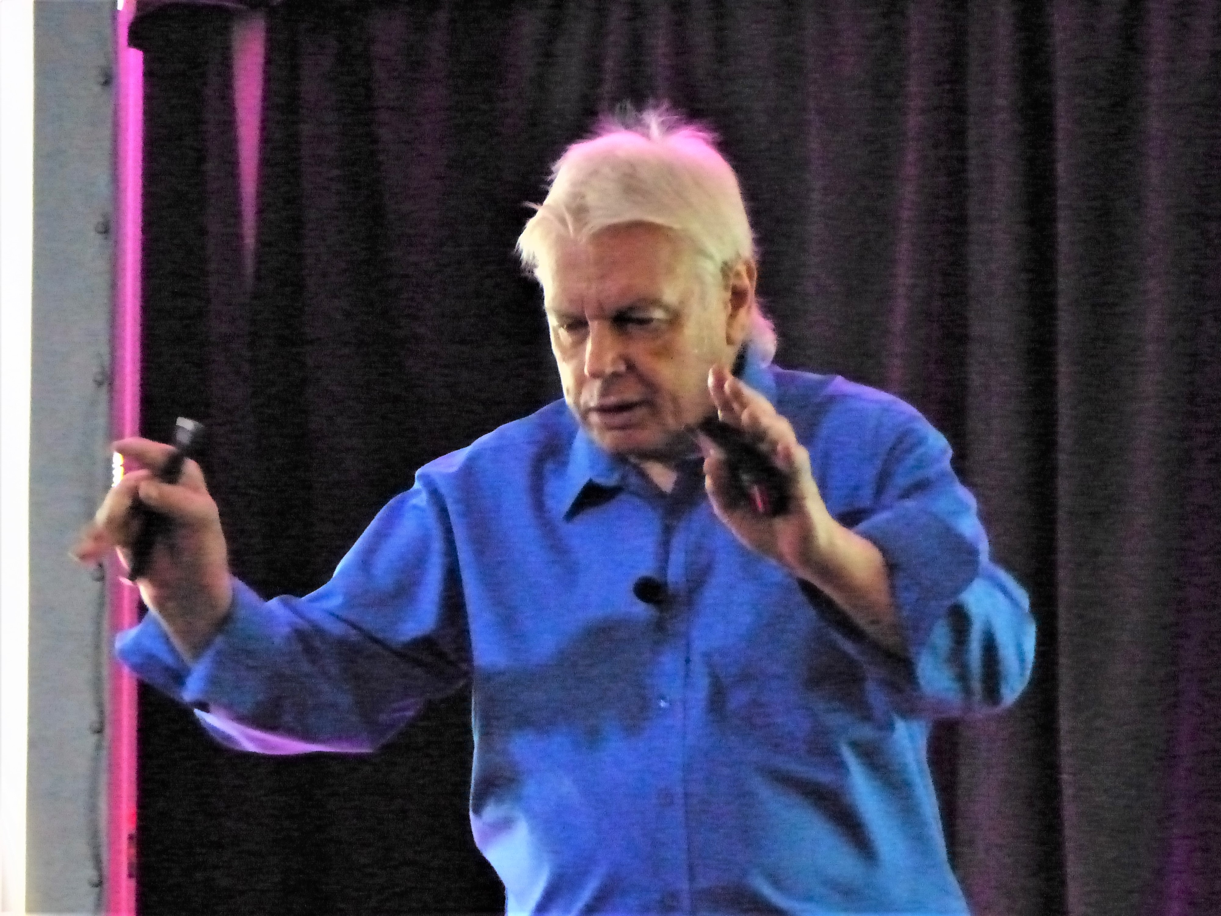 David Icke giving a lecture in Budapest on the 19th of October, 2018. Lurdy house, Budapest, Central Europe.